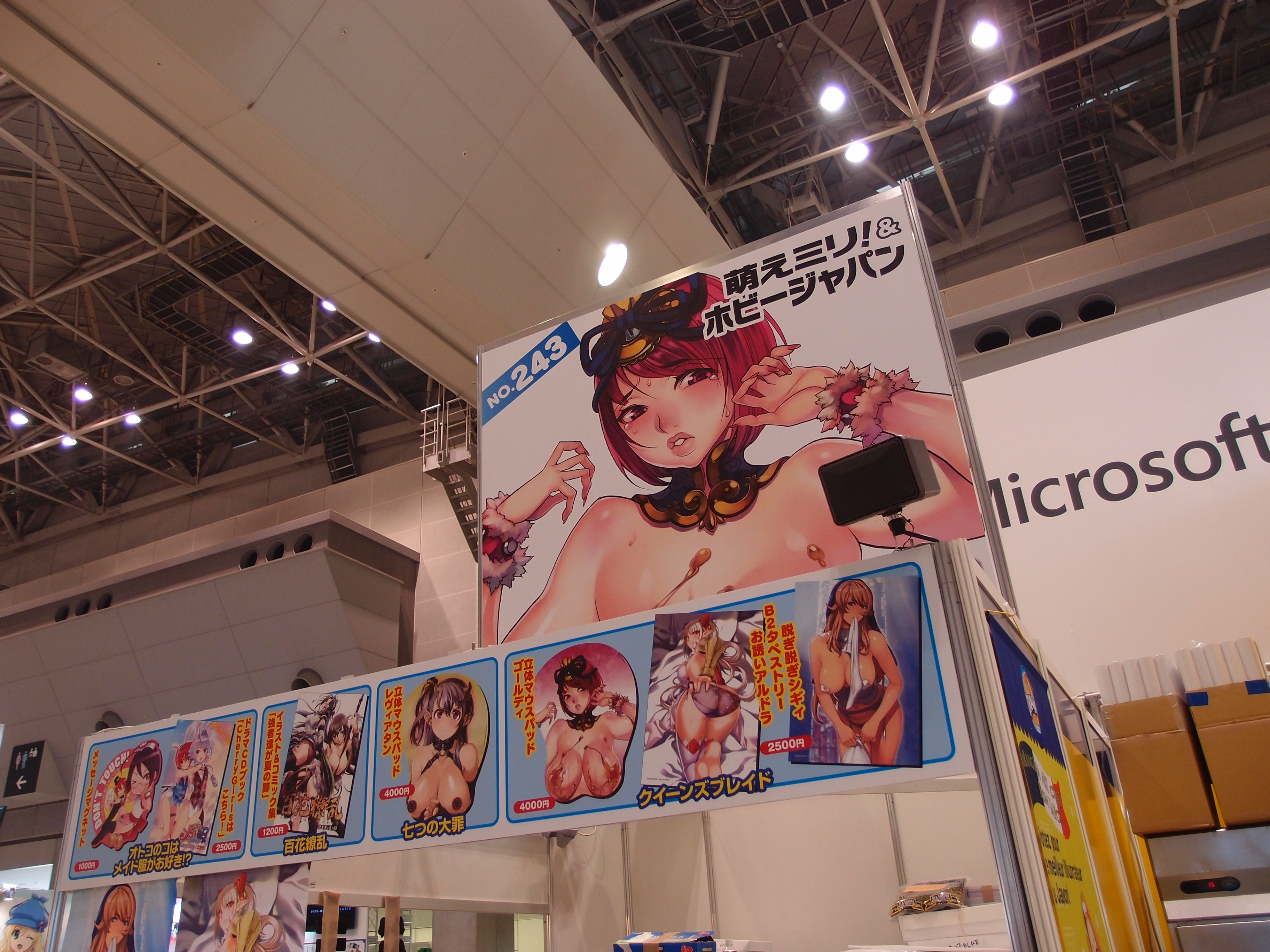 Company booths @ Comiket 84 - Summer 2013 @ Tokyo Big Sight